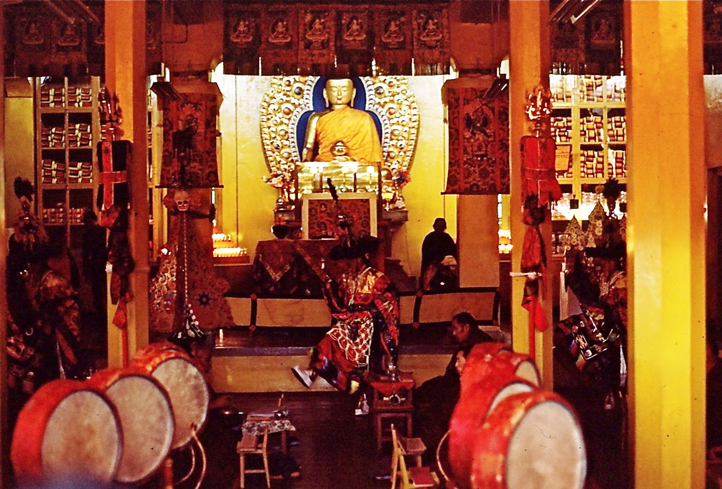 I took this photo myself in Dharamsala c. 1980.